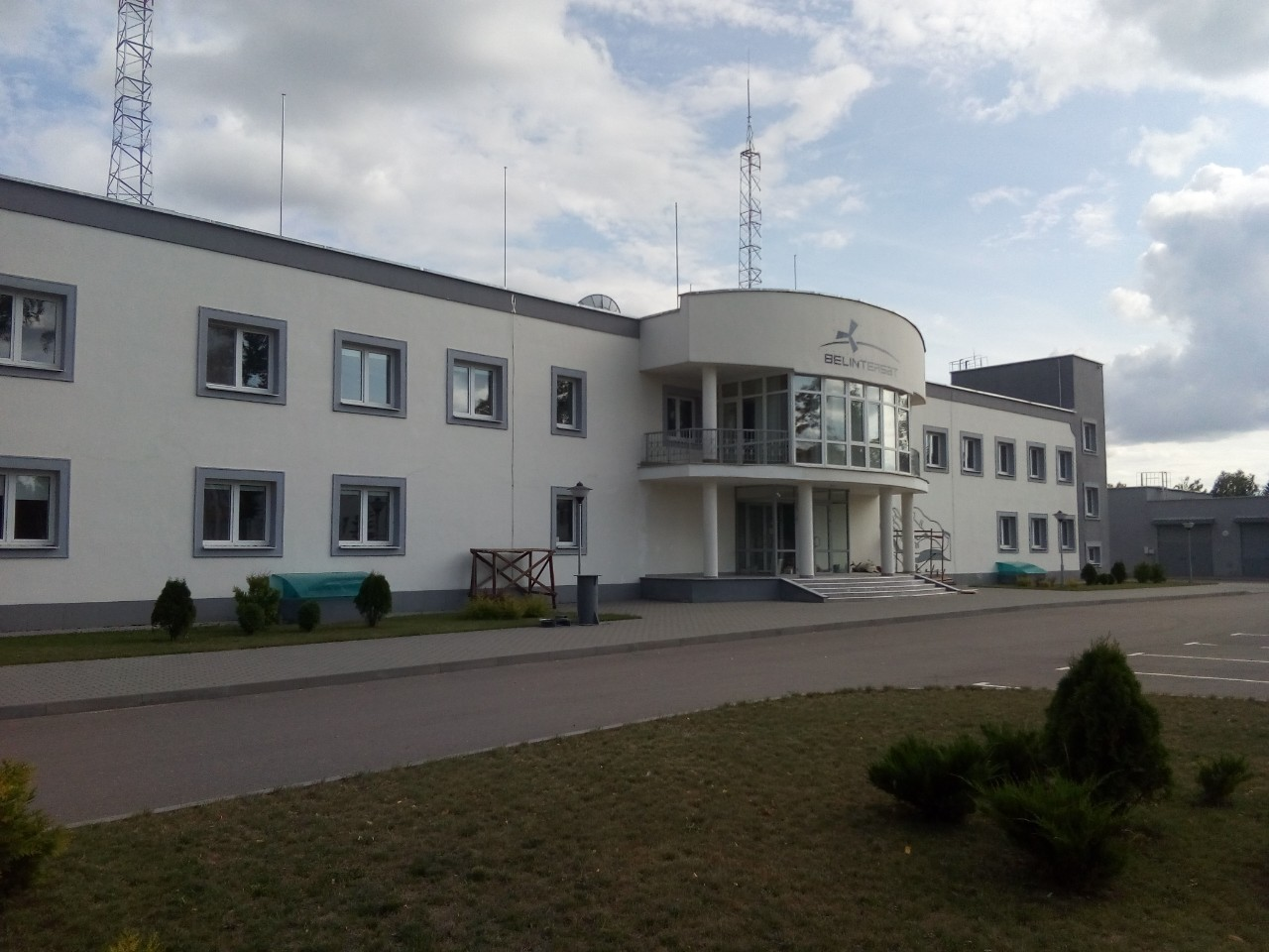 Belintersat teleport in the village of Stańkava (Minsk Voblasć, Belarus; 11th of July, 2019)